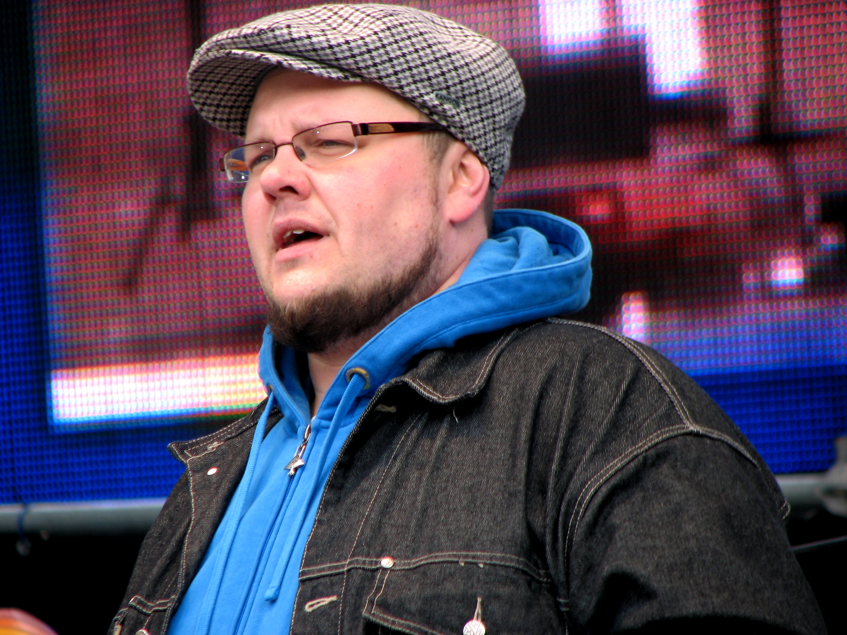 Tommyboy performing in Grand Slam, Tallinn